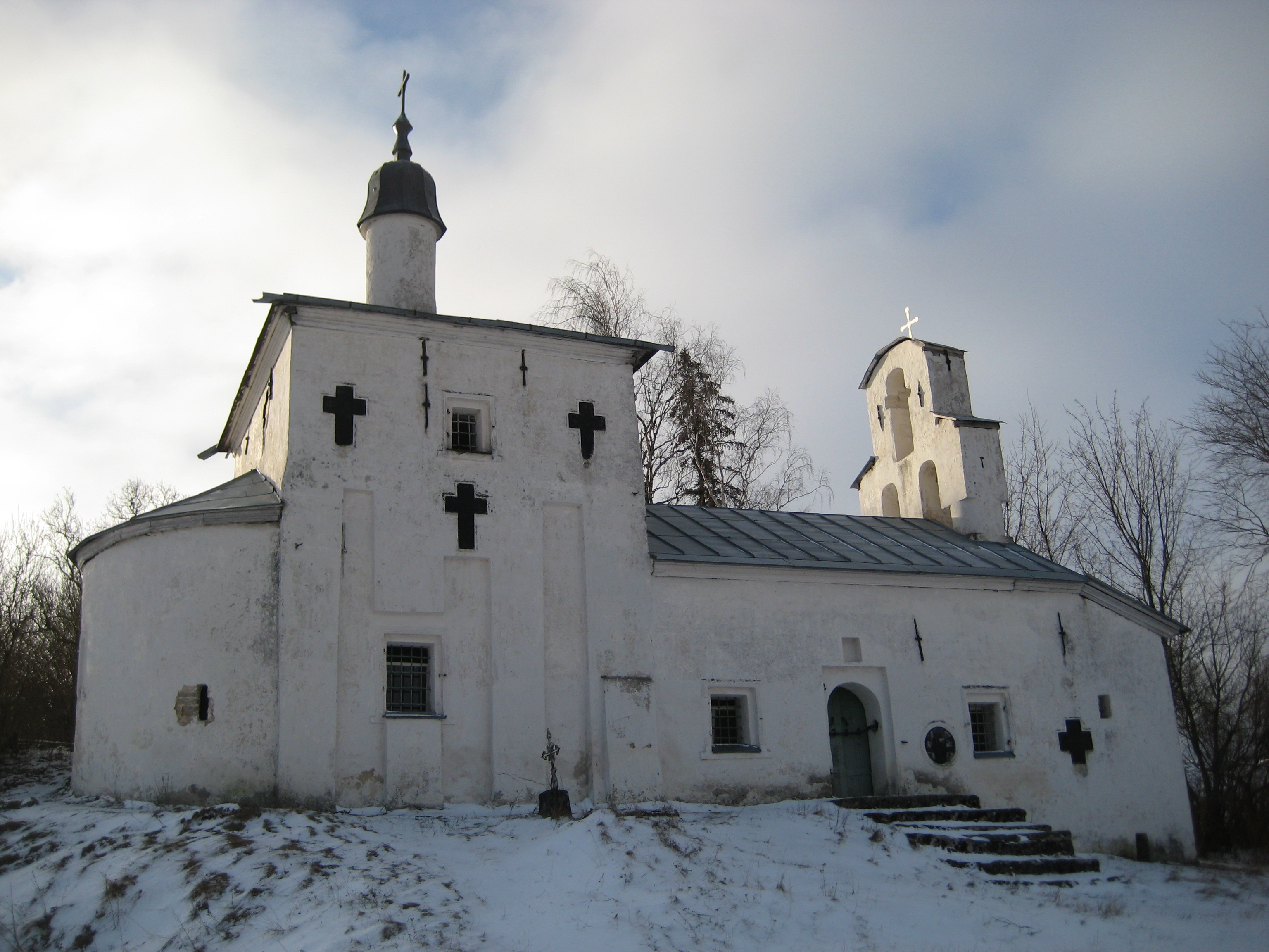 Church of St. Nicola "na Gorodische" (at site of ancient settlement). Никольская церковь на городище. XVII в.